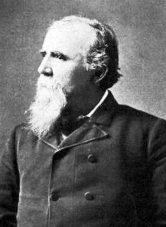 Portrait of Lucius Eugene Polk, a nephew of Lieutenant General Leonidas Polk and also a distant relative of President James K. Polk. He rose from the rank of private in the Yell Rifles at the outbreak of the Civil War to the rank of brigadier general under Major General Patrick Cleburne late in 1862. He was wounded multiple times during the war.